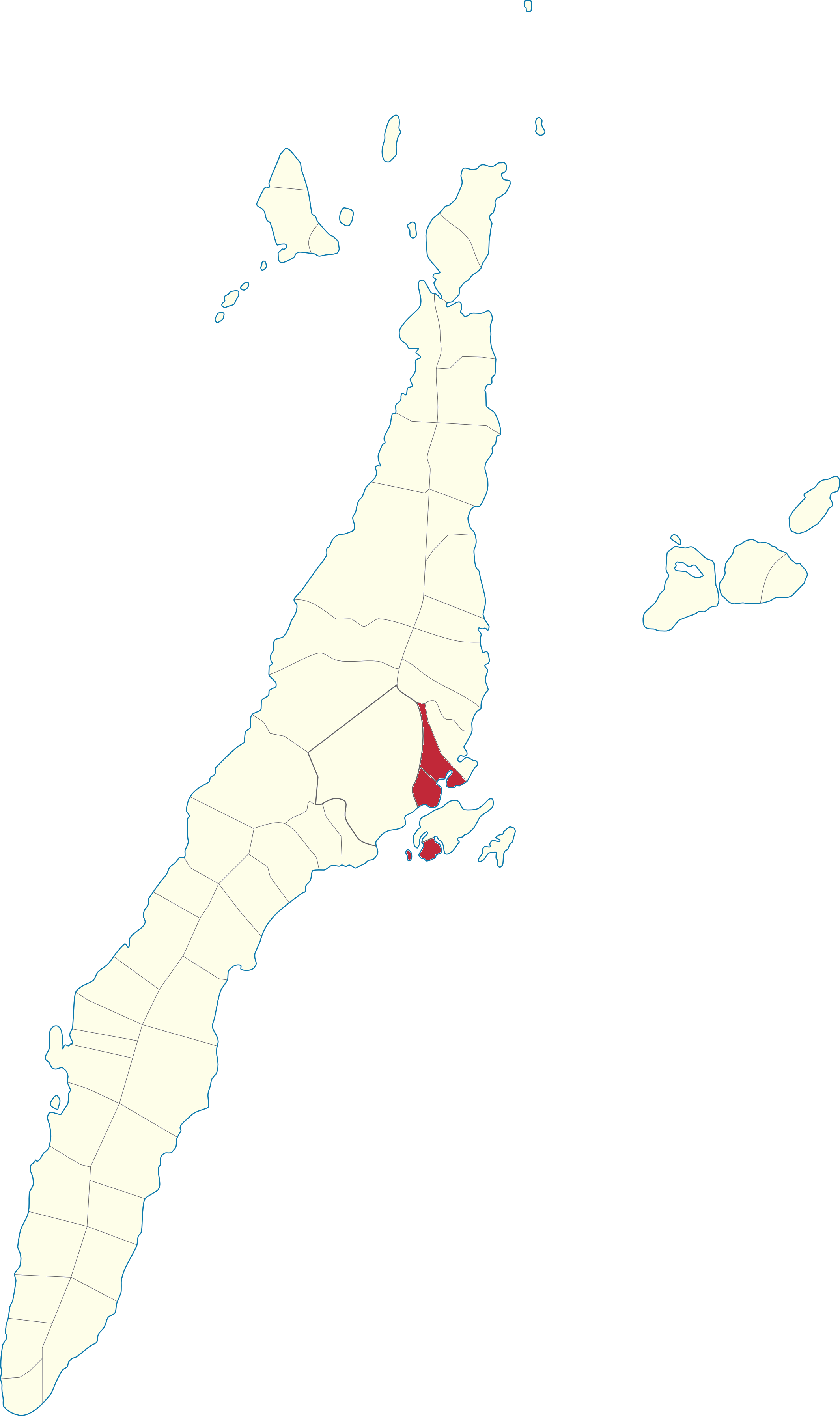 Location of 6th Legislative district of Cebu, Philippines